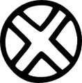 town village in Egypt